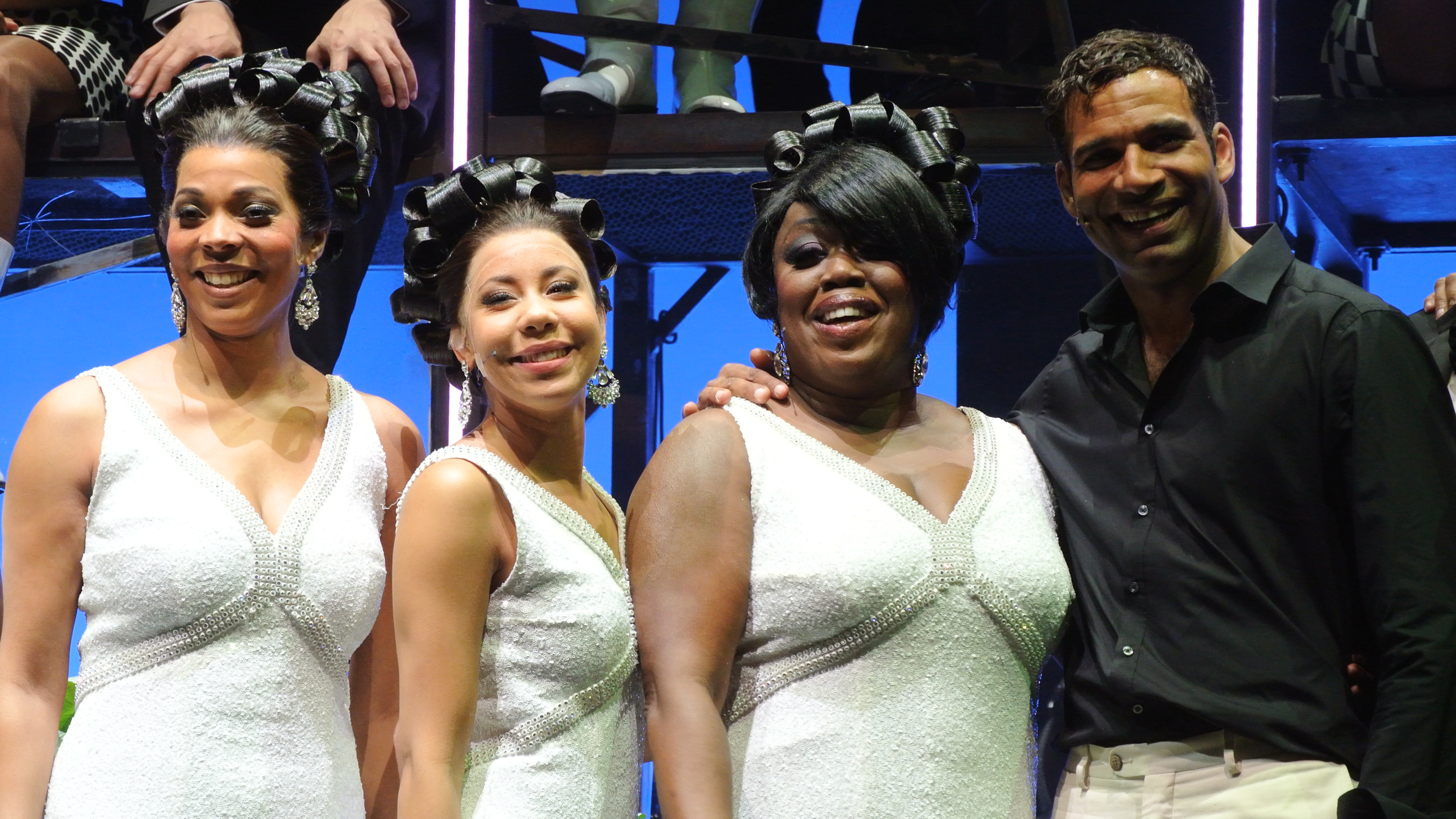 Picture taken after the Dutch version of the musical Dreamgirls, in the DeLaMar theatre in Amsterdam on the 1st of May 2015. From left to right: Carolina Dijkhuizen, Aicha Gill, Berget Lewis and Edwin Jonker (the four lead roles of the musical).